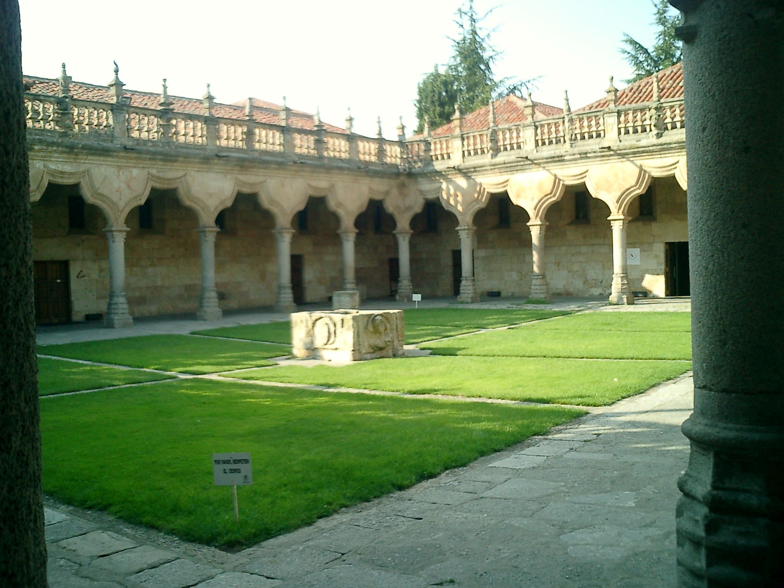 Patio de Escuelas, University of Salamanca, Salamanca, Spain